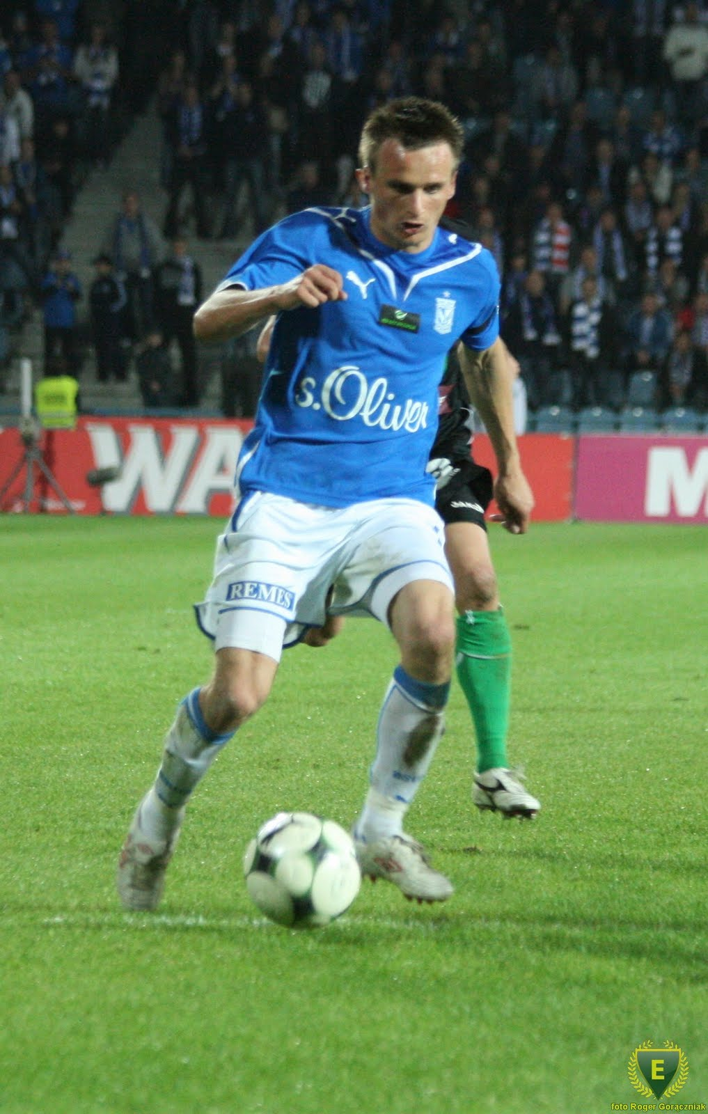 Polish football player Sławomir Peszko